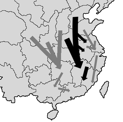 Han immigration to the south during Jin Dynasty